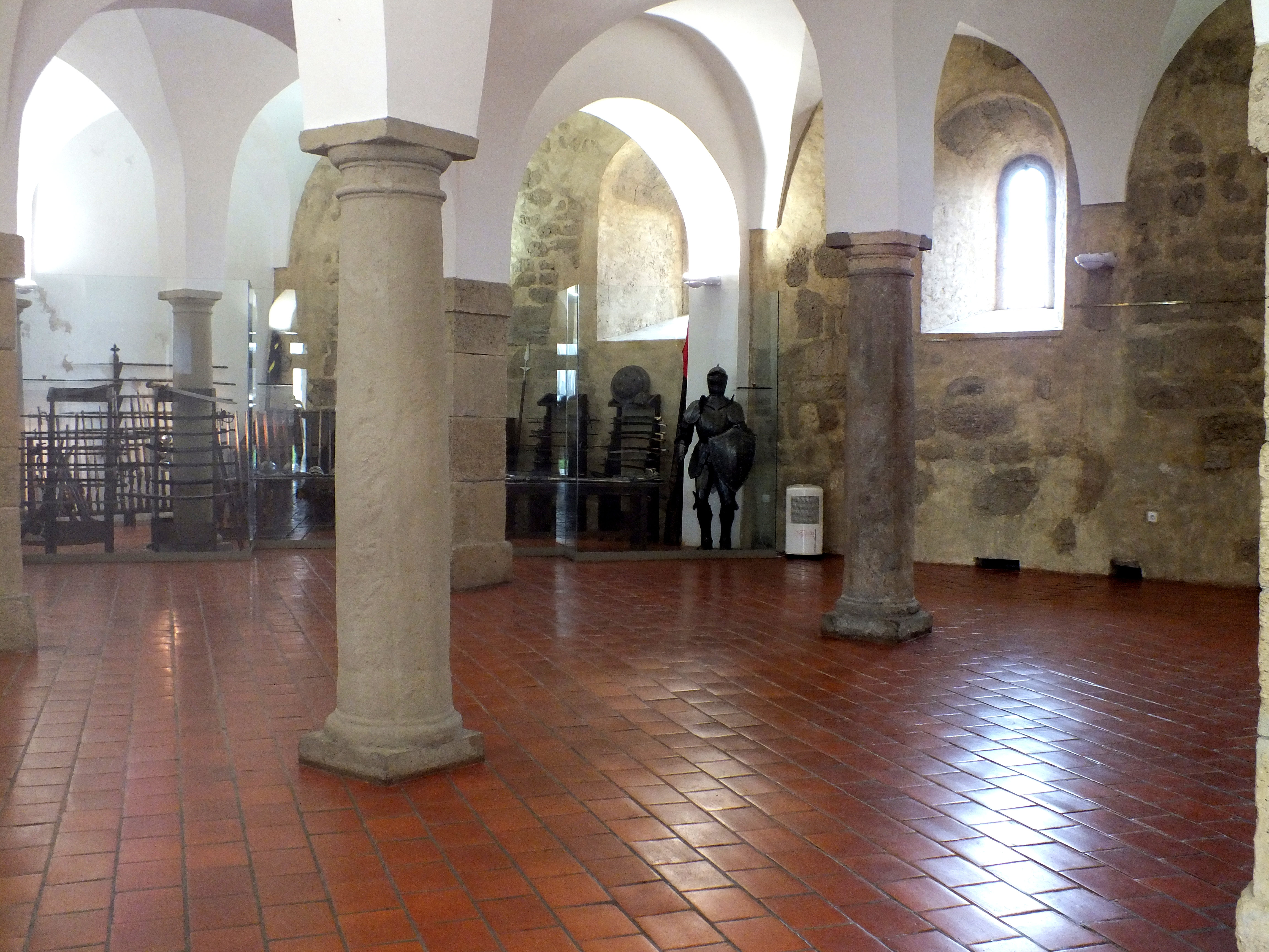 Castle Ptuj in Slovenia